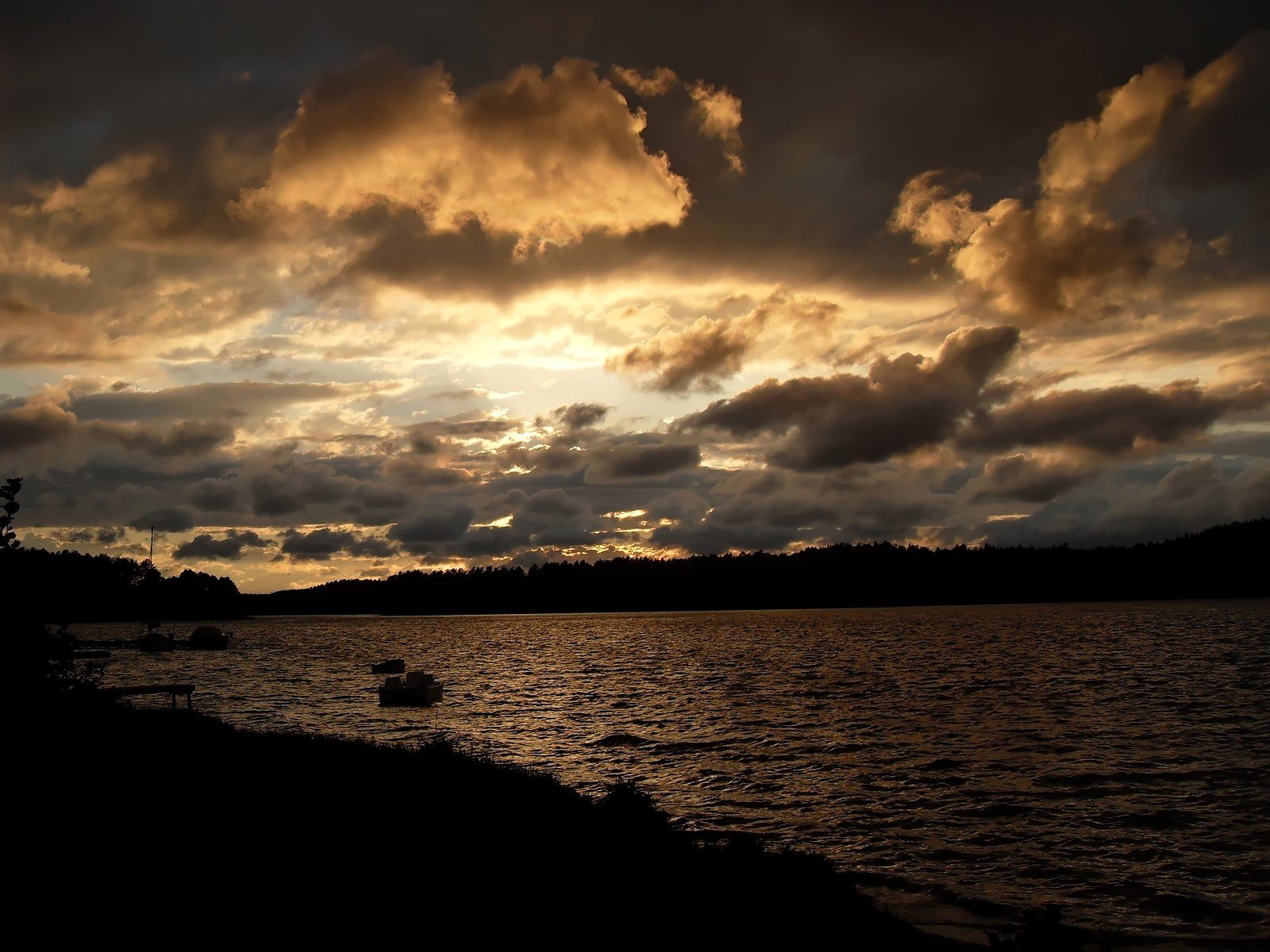 before the storm